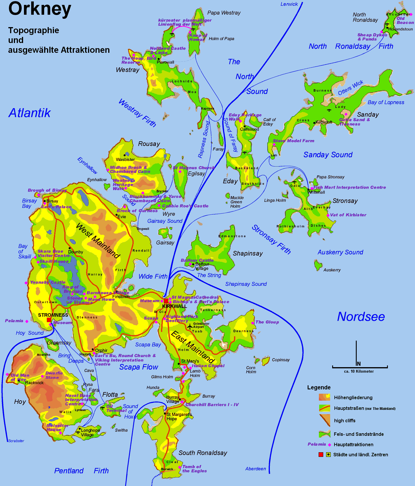 Orkney (incl. major tourist attractions); ferries included to actual date: 08/2006